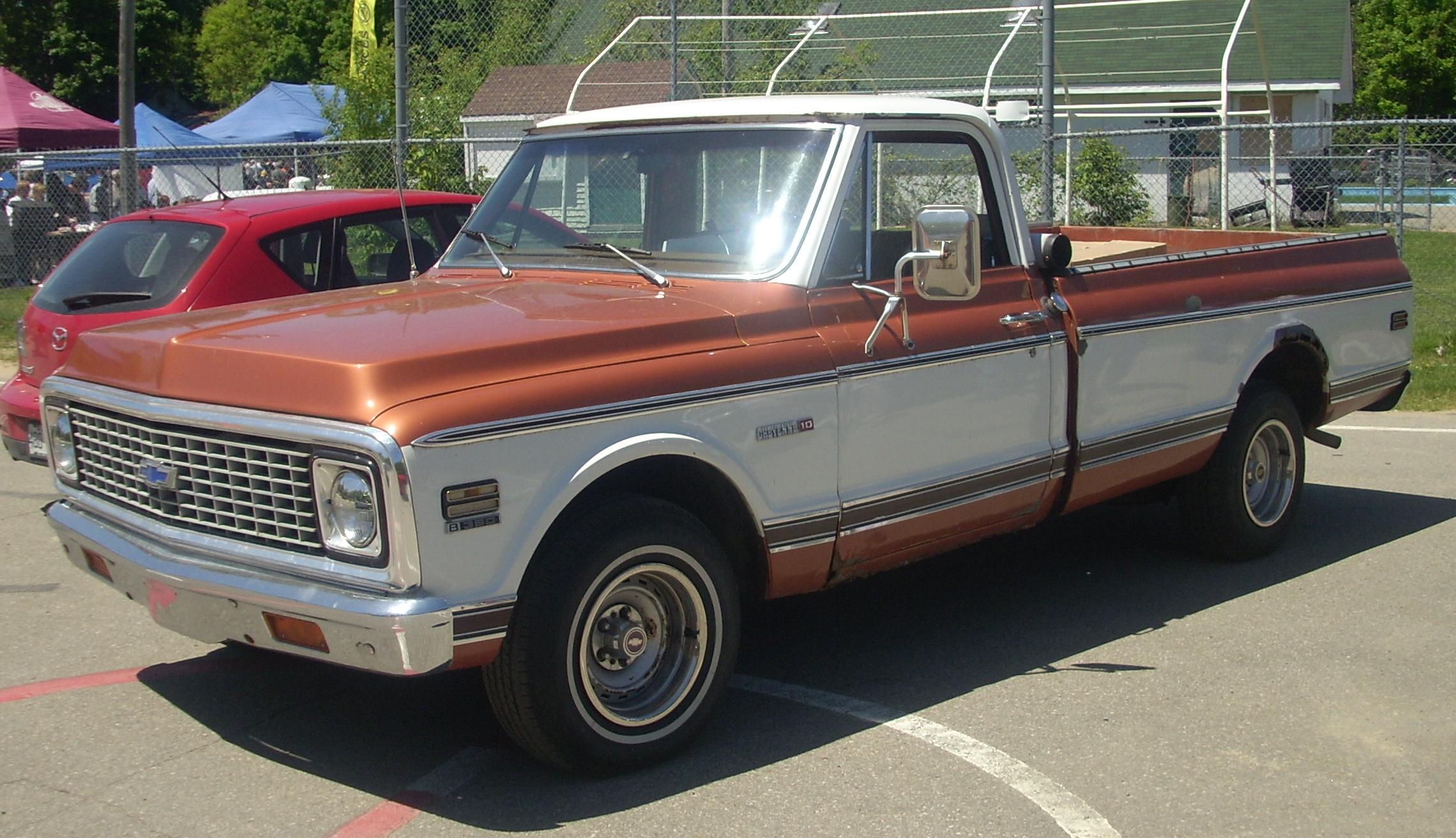 Chevrolet C/K photographed at the 2008 Hudson British Car Show